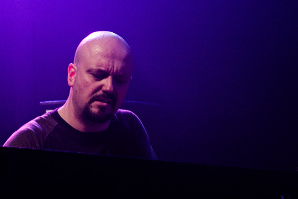 Bojan Z at Moers Festival 2006 own photo 06-03-2006 photo: nomo/michael hoefner